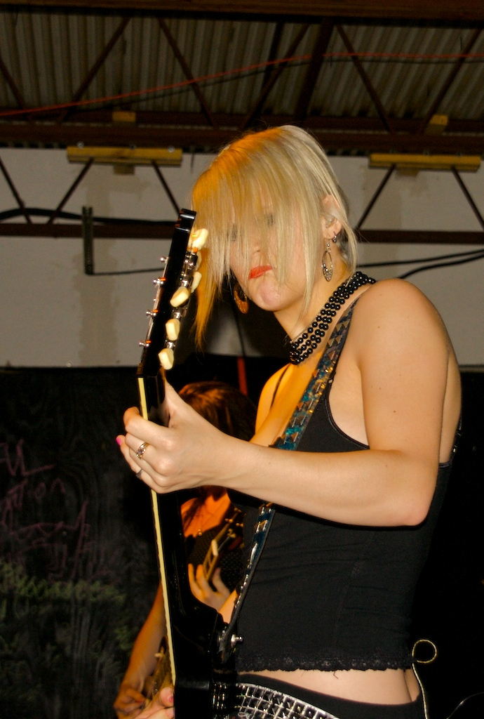 Morgan Lander of Canadian rock band Kittie